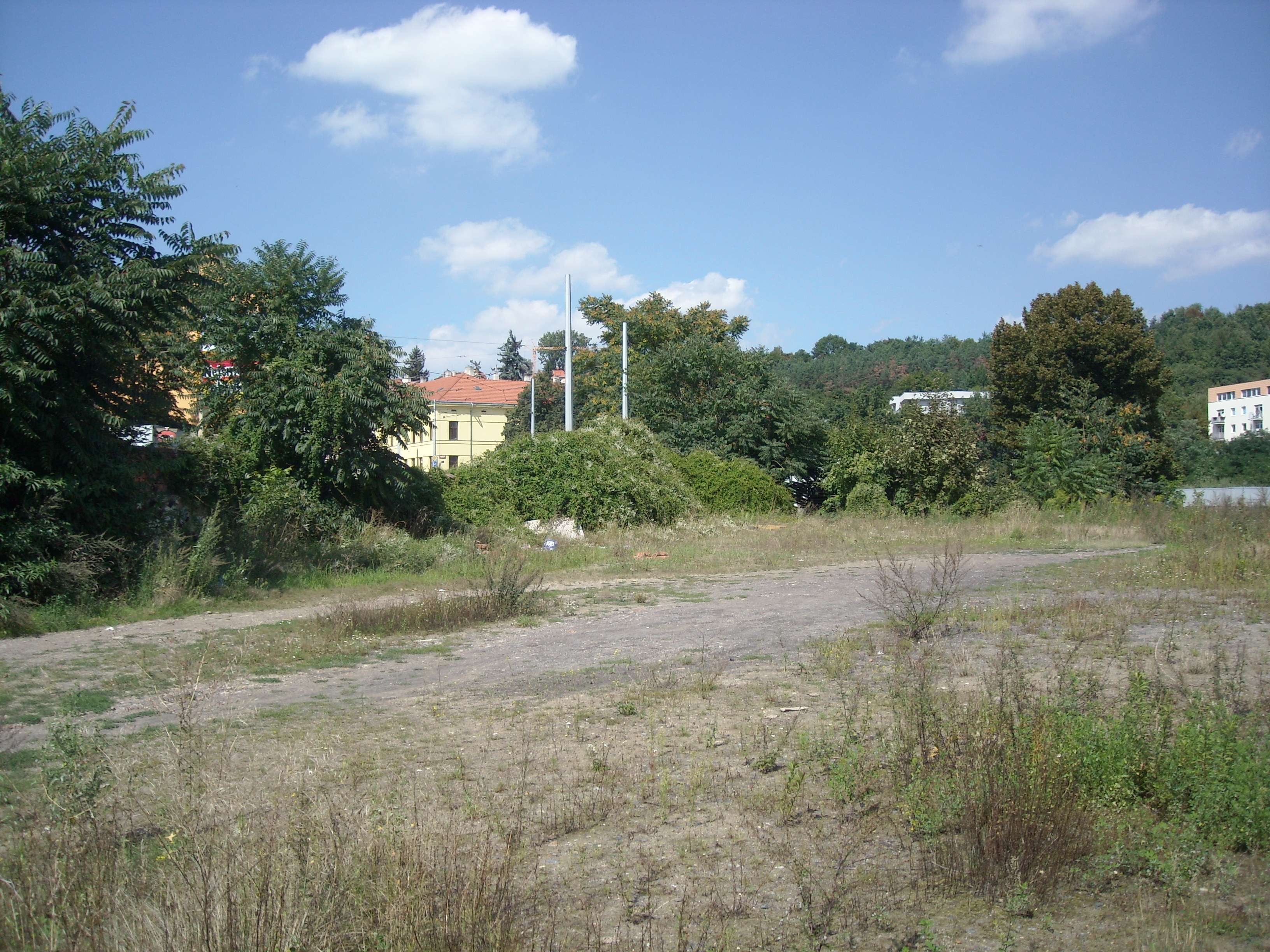 Vacant space between Zenklova and Františka Kadlece, Libeň, Prague